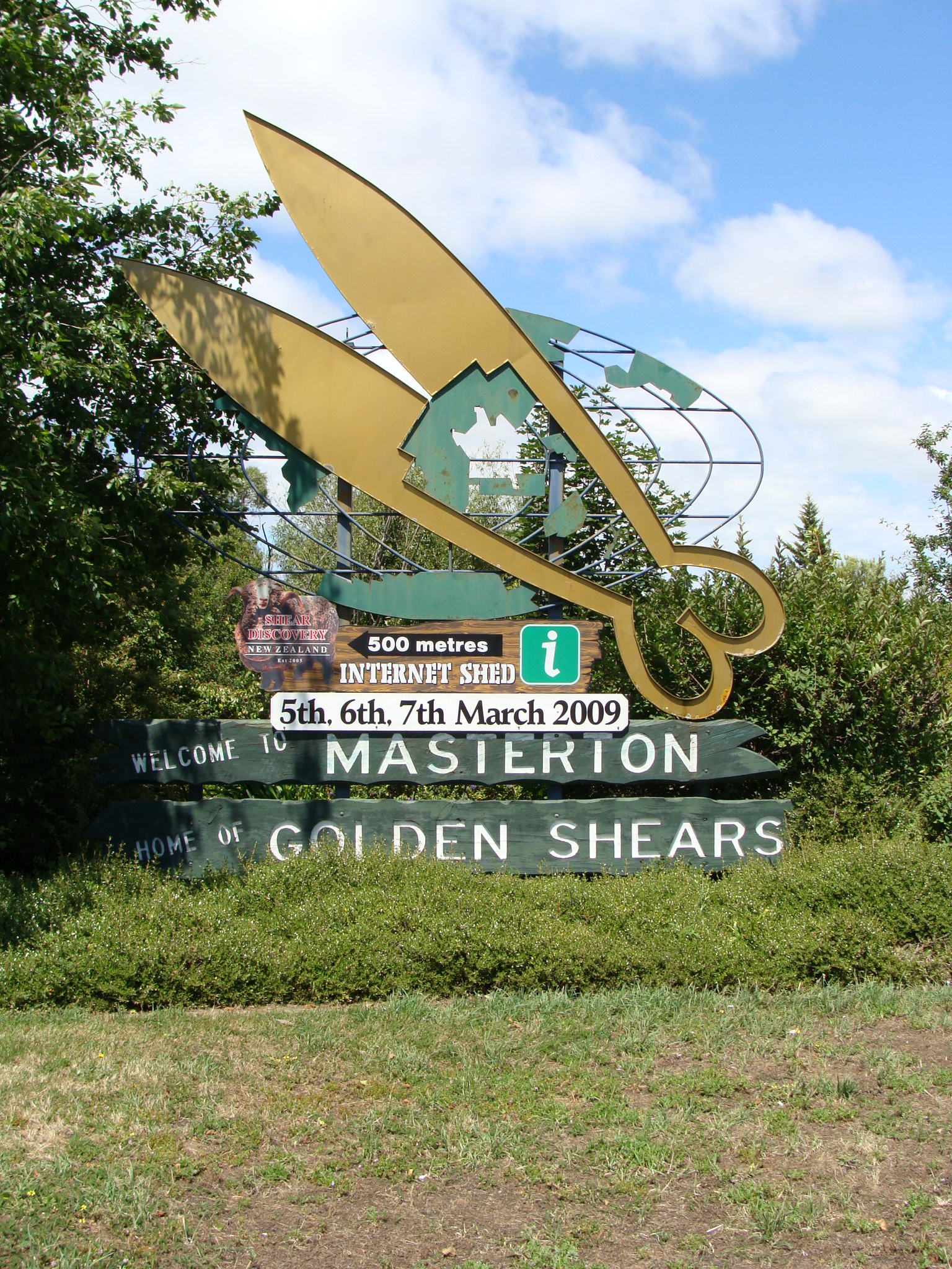 Golden Shears sign at the northern end of Masterton, New Zealand.